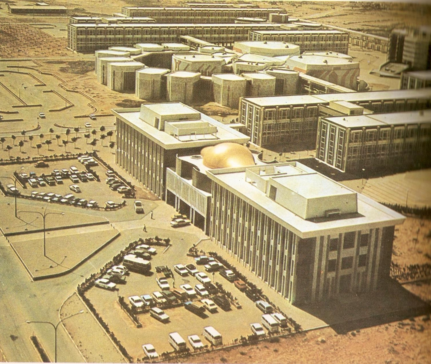 Garyounis University, Benghazi, Libya.